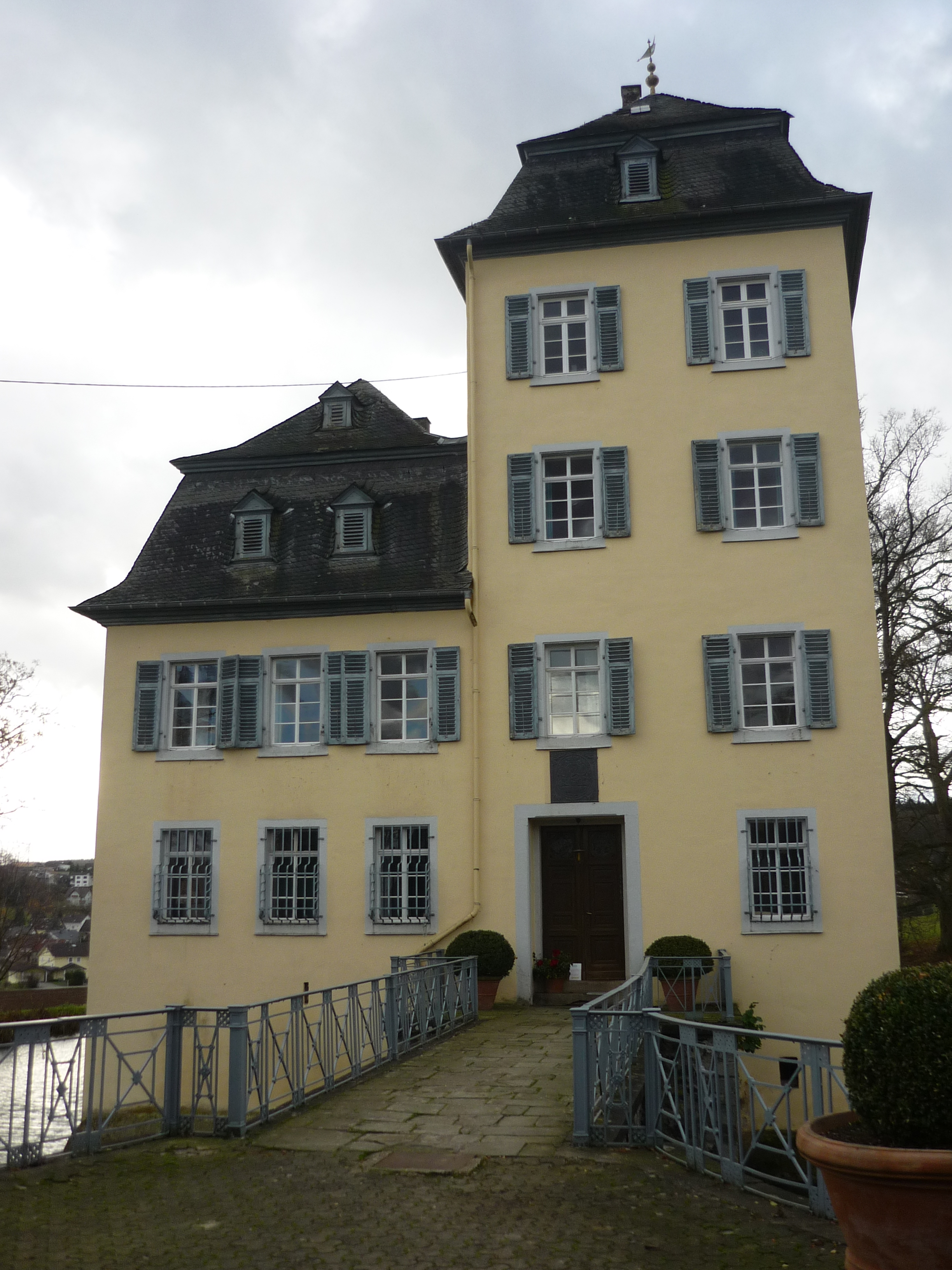 Hof langwiesen near salz Westerwald